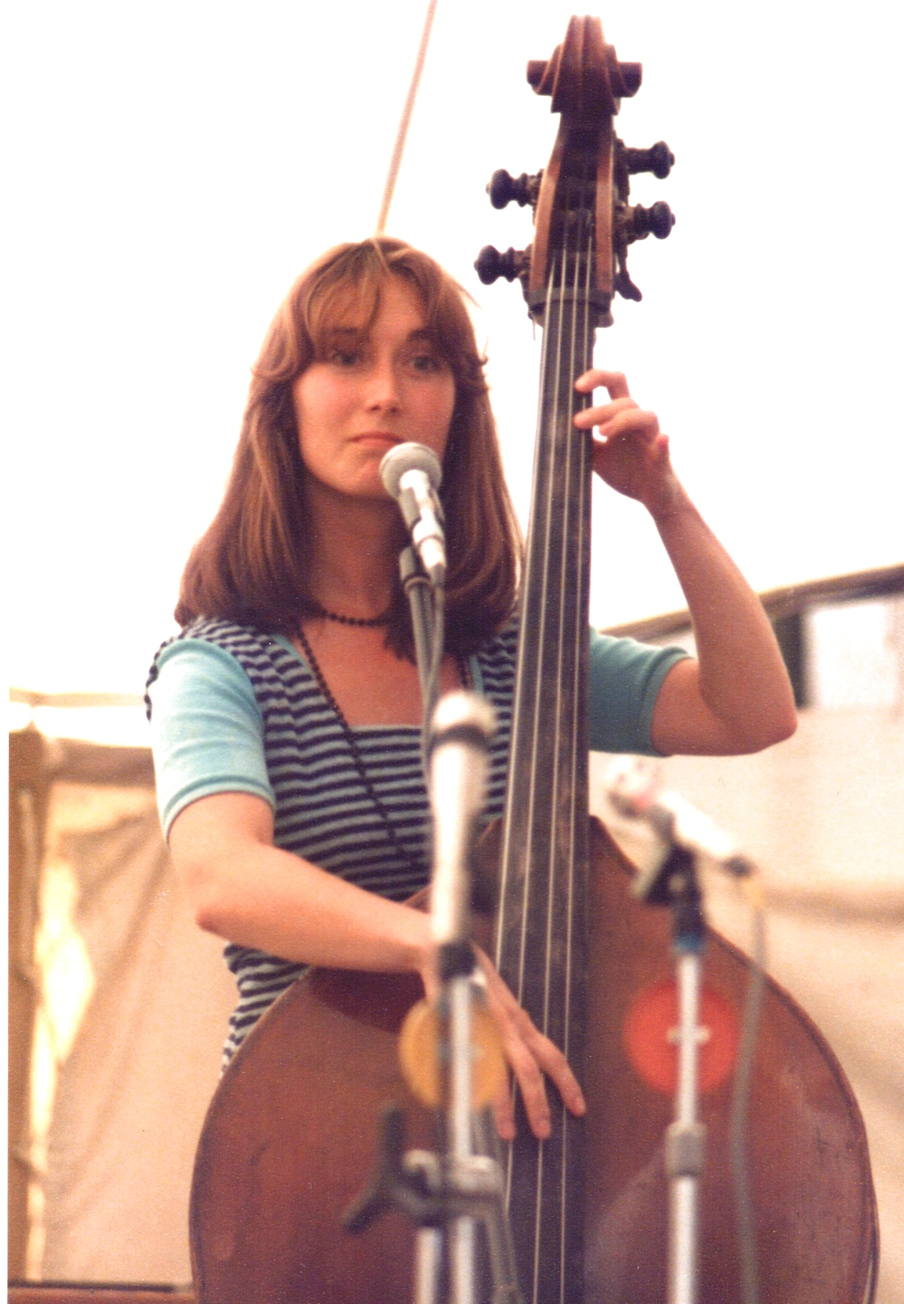 Hilary James, UK folk musician at the 1980 Towersey Festival (Tony Rees photograph)